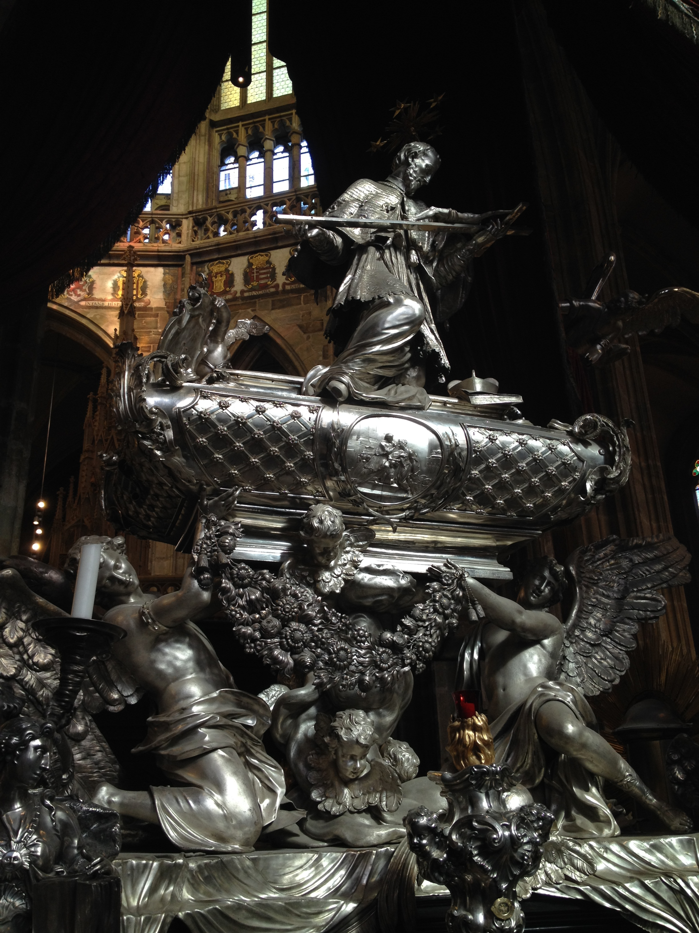 The tomb of Saint John of Nepomuk, located in Saint Vitus Cathedral, Prague.